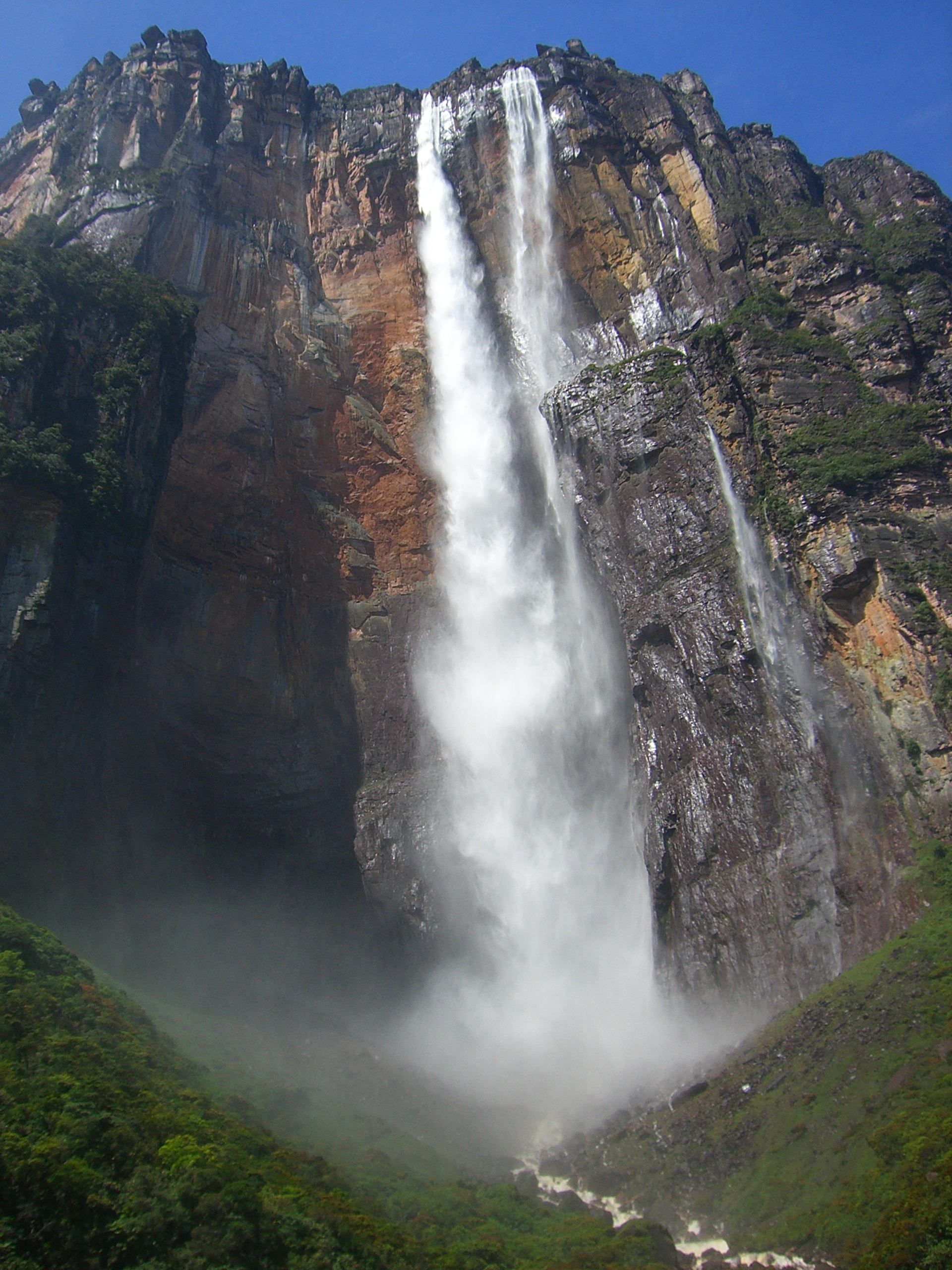 Salto Angel, Canaima, Venezuela